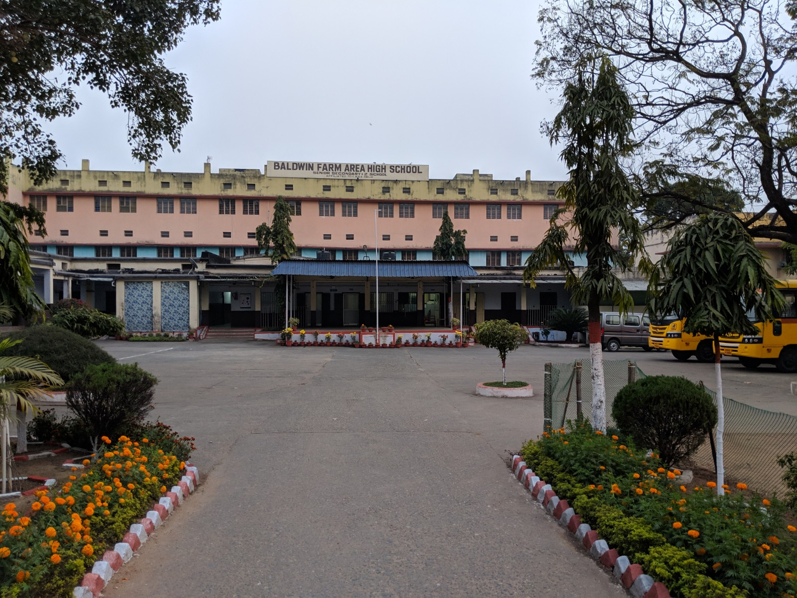 This is a picture of Baldwin Farm Area High School in Kadma, Jamshedpur, Jharkhand, India